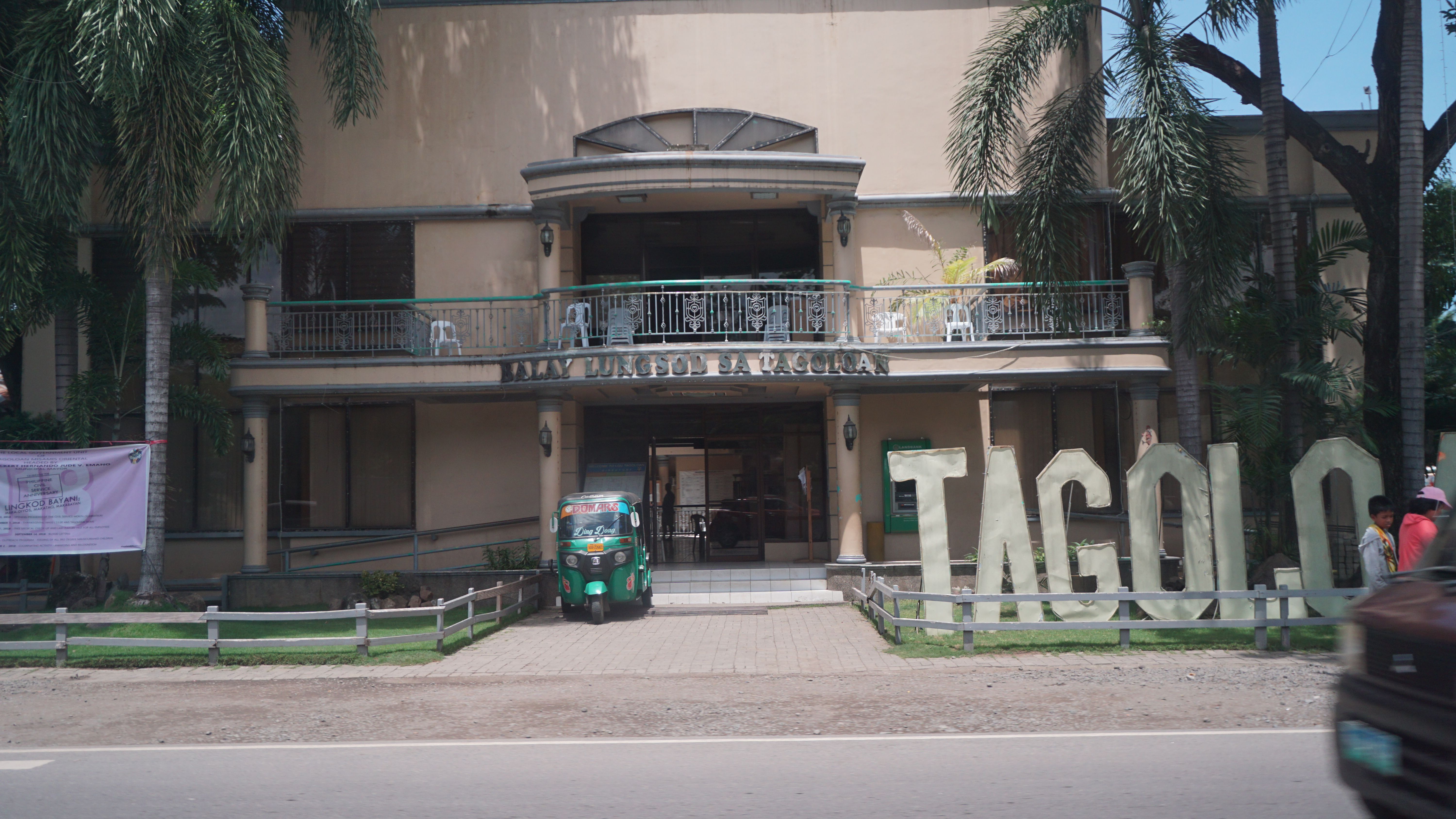 Tagoloan Municipal Hall